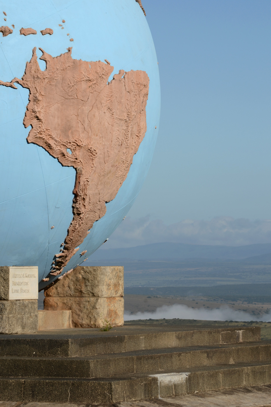 An interesting globe monument designed by the same architect responsible for the Voortrekker Monument, and built a year after in 1939. It's on a dirt road about 40 from Port Elizabeth in the Eastern Cape, South Africa. It celebrates the 100th anniversary of the trek from the Eastern Cape area under the leadership of Karel Landman. This media shows a South African Protected Site with SAHRA file reference [1].